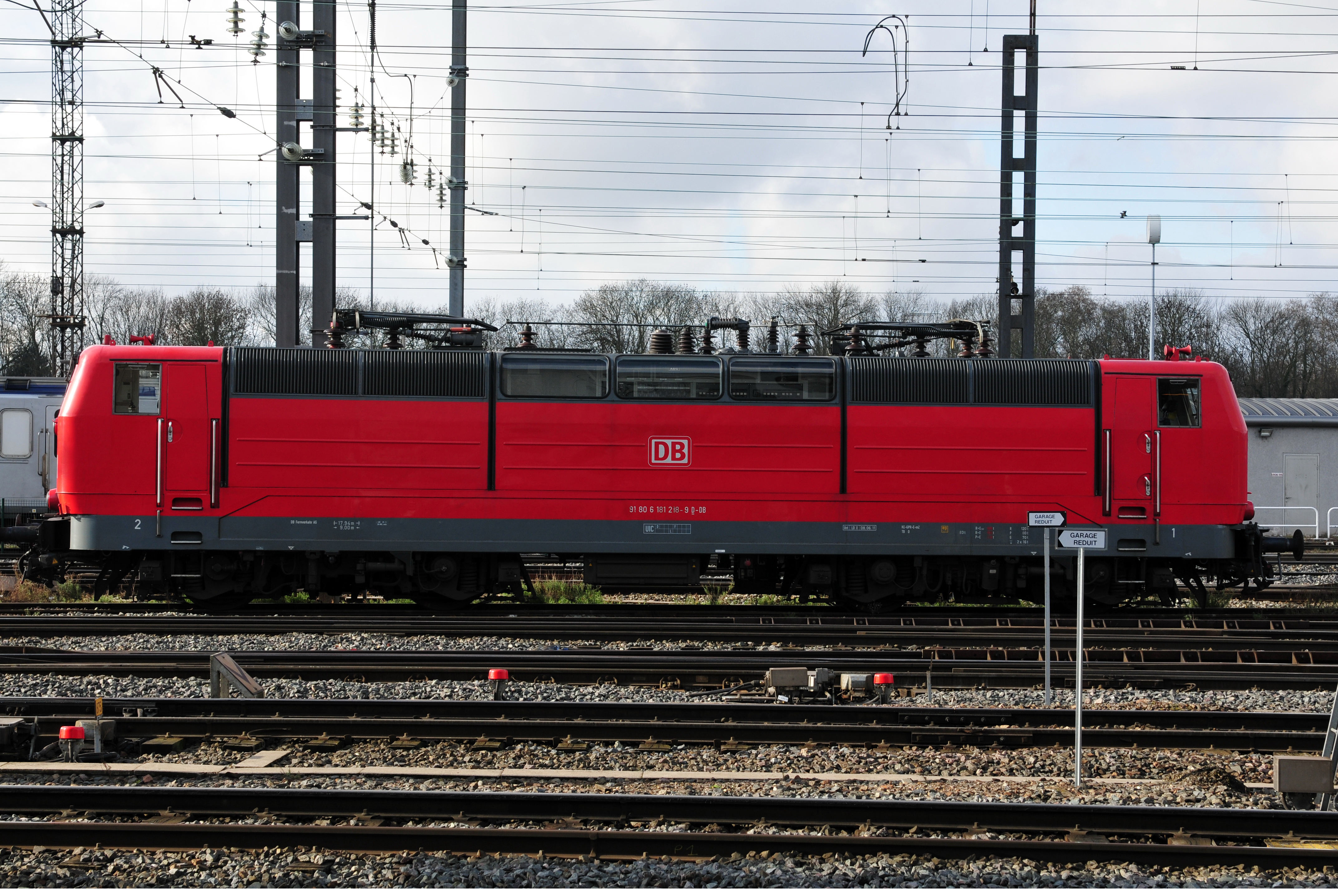 german Locomotive Typ E 310 in Straßburg, France European Parliament 2014 3.–7. February 2014, StrasbourgThis photo has been created within the project "WIKI loves parliaments / European Parliament". Usage and Help If you have any questions concerning this picture or how to use it, feel free to